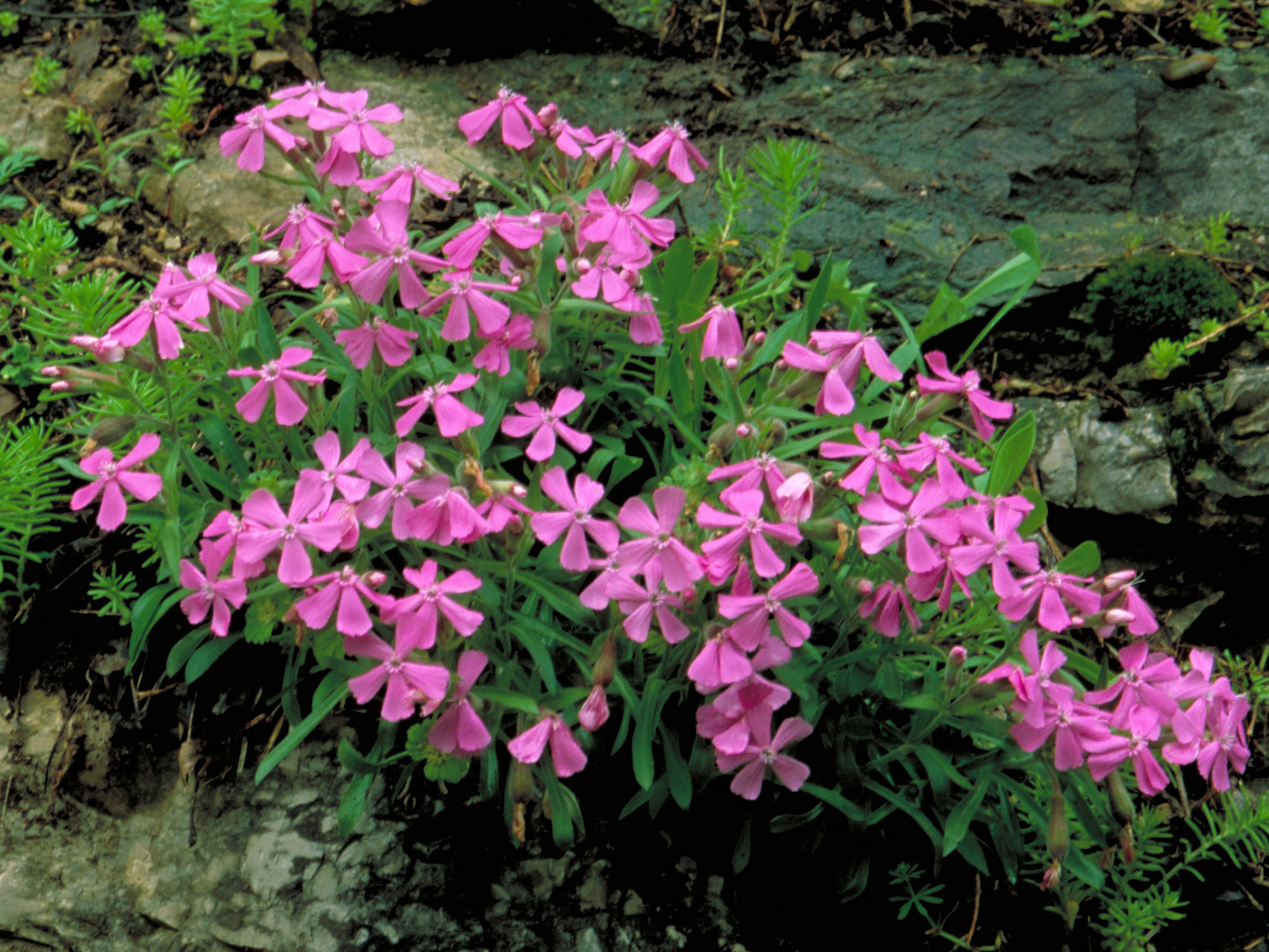 Silene caroliniana (Carolina catchfly)